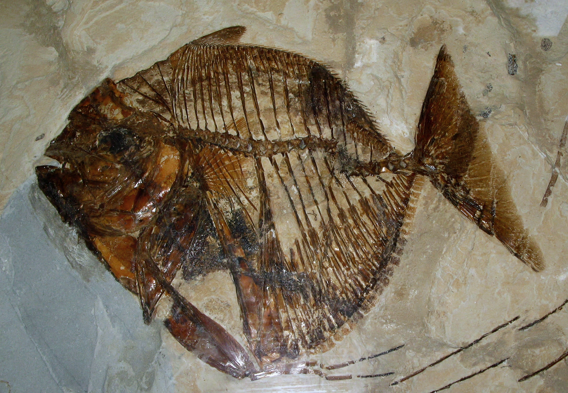 Bony fish (Mene rhombea) - Age: Old Tertiary, middle Eocene - Locality: Bolca, Italia - Exposed in the Mineralogical Museum Kupferdreh, Essen, Germany